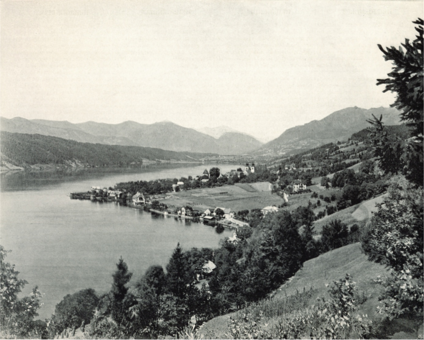 The austrian village of Millstatt and the lake of Millstatt in Carinthia